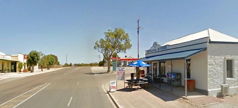 Westward view of the Eyre Highway at Penong SA with general store, hotel and service station. The sign outside the store reads "Last store for 1000 km". The Western Australian border is 400 km away.